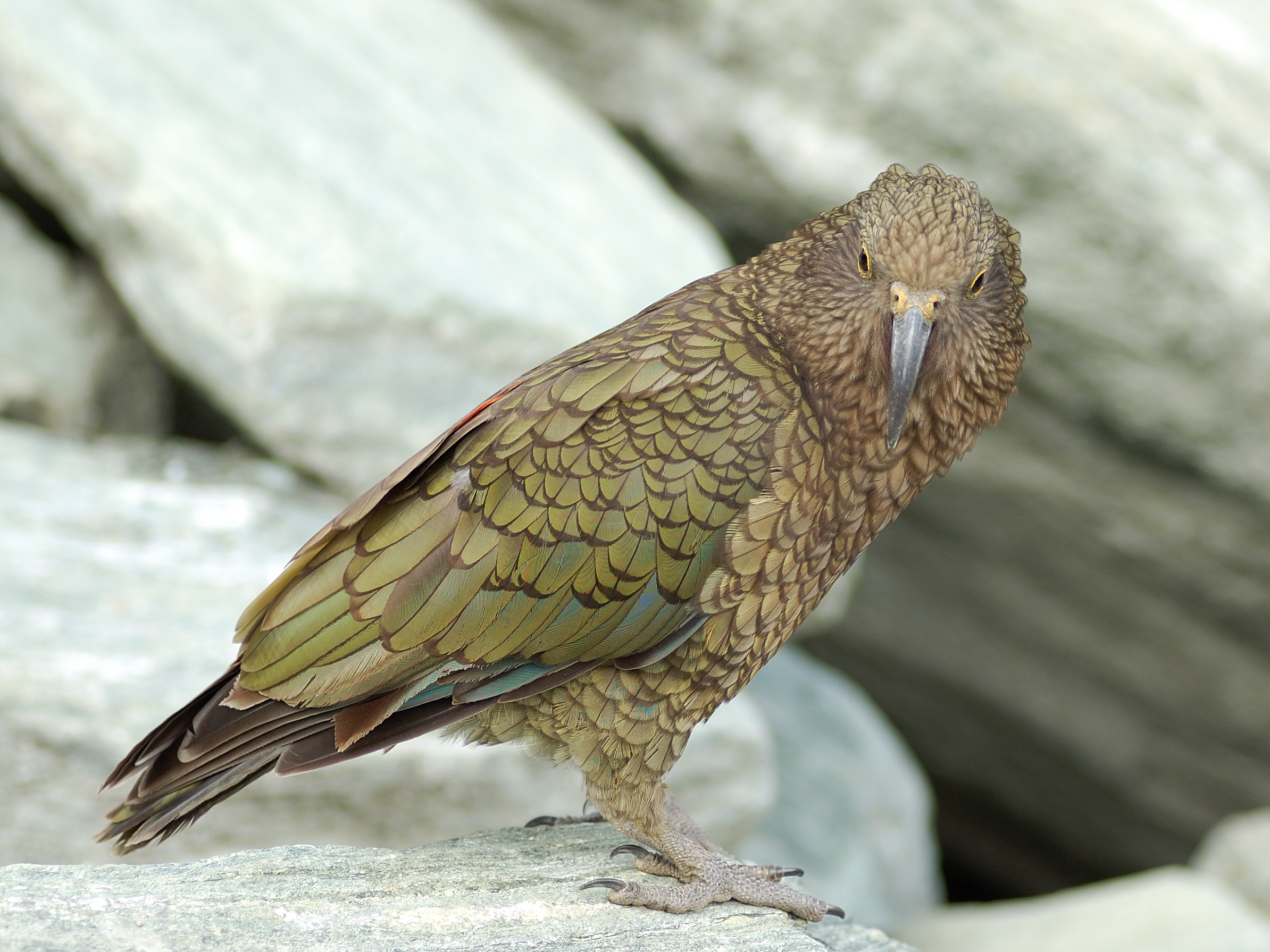 A Kea at Mount Aspiring National Park, New Zealand.